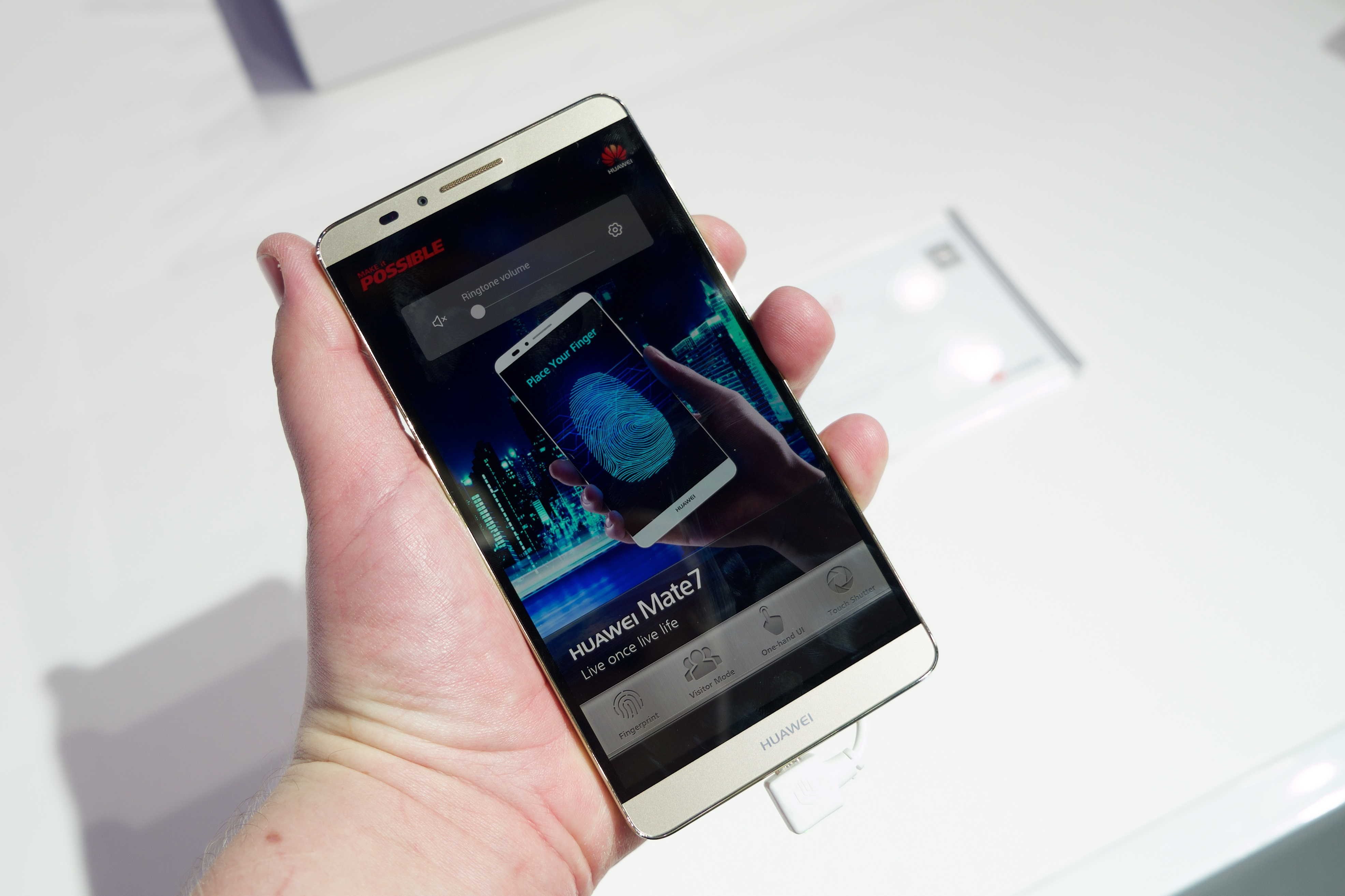 Huawei Mate 7 at Mobile World Congress 2015 Barcelona